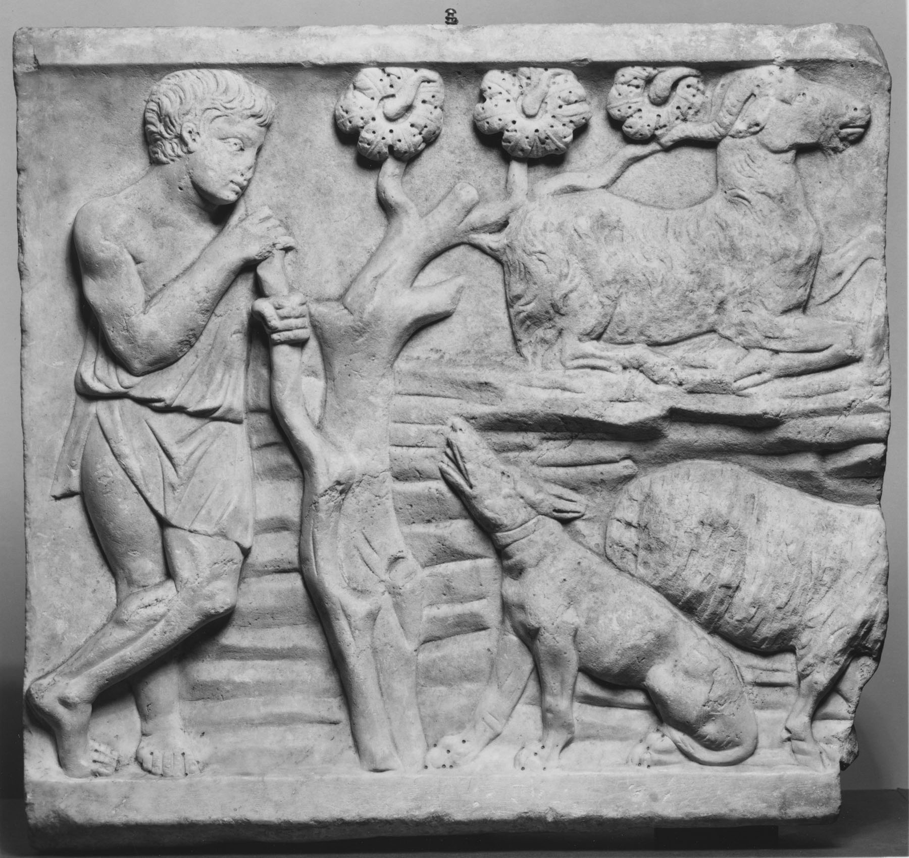 This relief decorated the short end of a sarcophagus (stone coffin). It shows a herdsman accompanied by his dog, a sheep, and a goat. The long side of the sarcophagus, now lost, would have depicted the Greek myth of Endymion, a handsome shepherd with whom the moon-goddess Selene fell in love. She granted him eternal sleep and youth and visited him at night. The herdsman depicted here mourns his friend's seeming death.